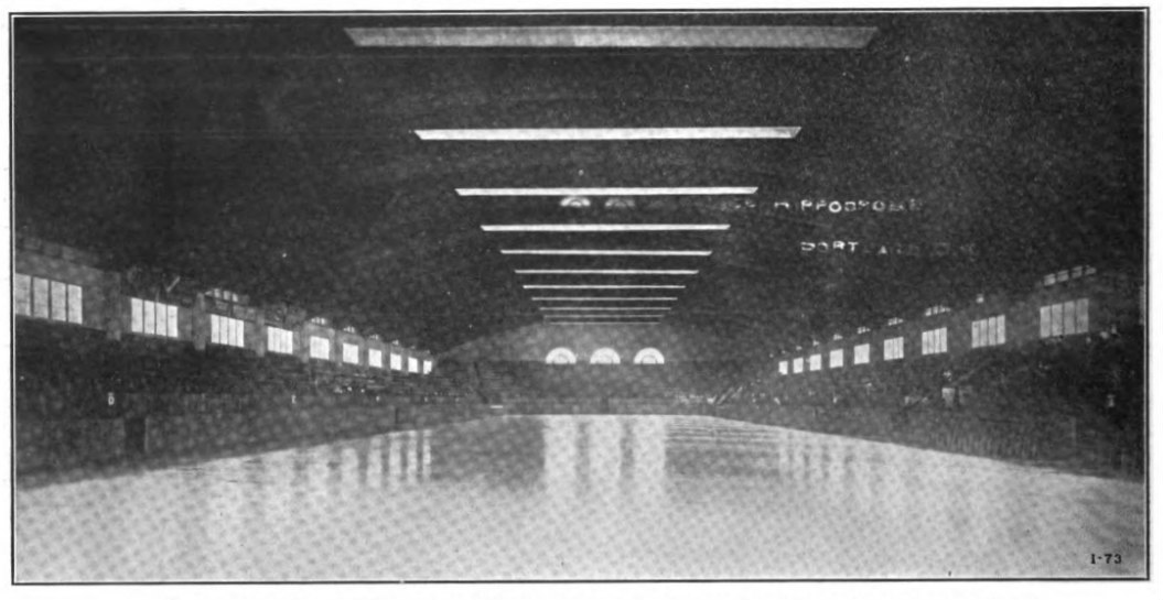 Interior of the Portland Ice Arena in Portland, Oregon in 1915.